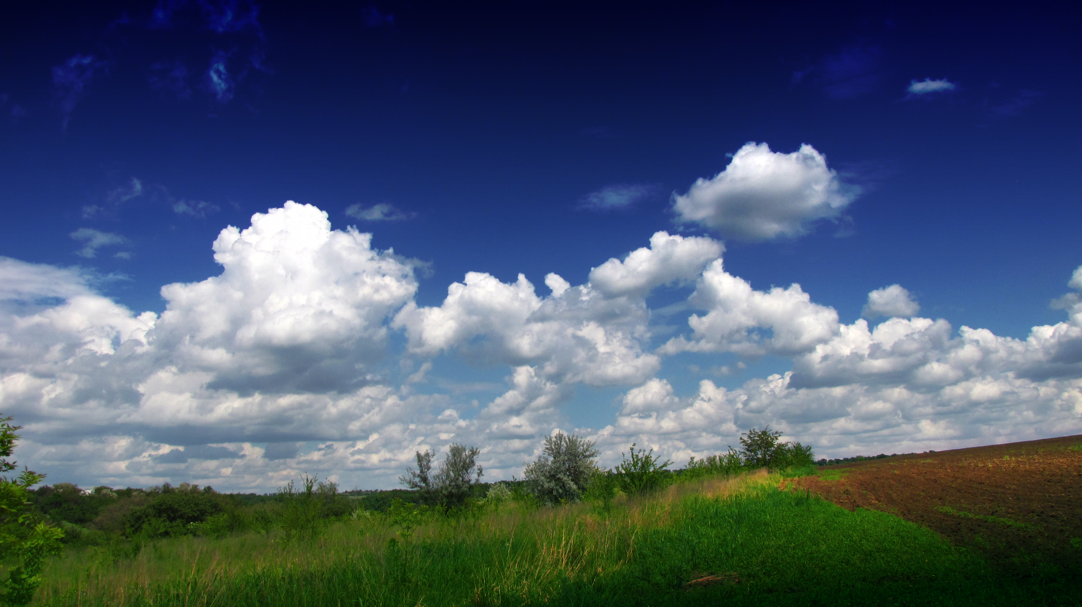 Cumulus humilis clouds over Ukraine